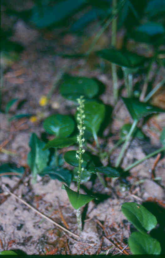 Malaxis_monophyllos_var_brachypoda_4-eheep